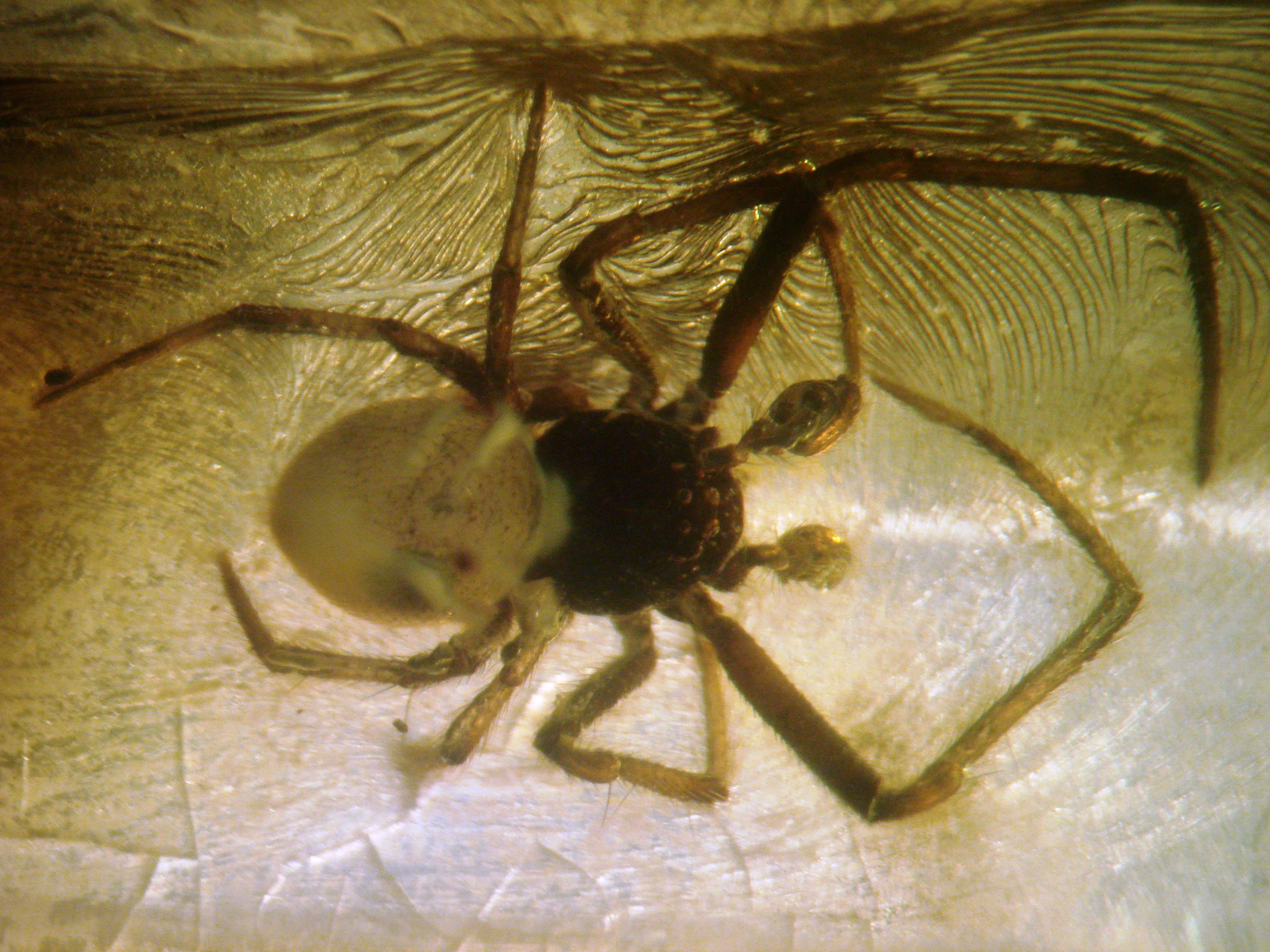 Baltic amber inclusions - 40-50 million years old - Spider (Arachnida, Araneae, ...?) The body is about 2 mm long.